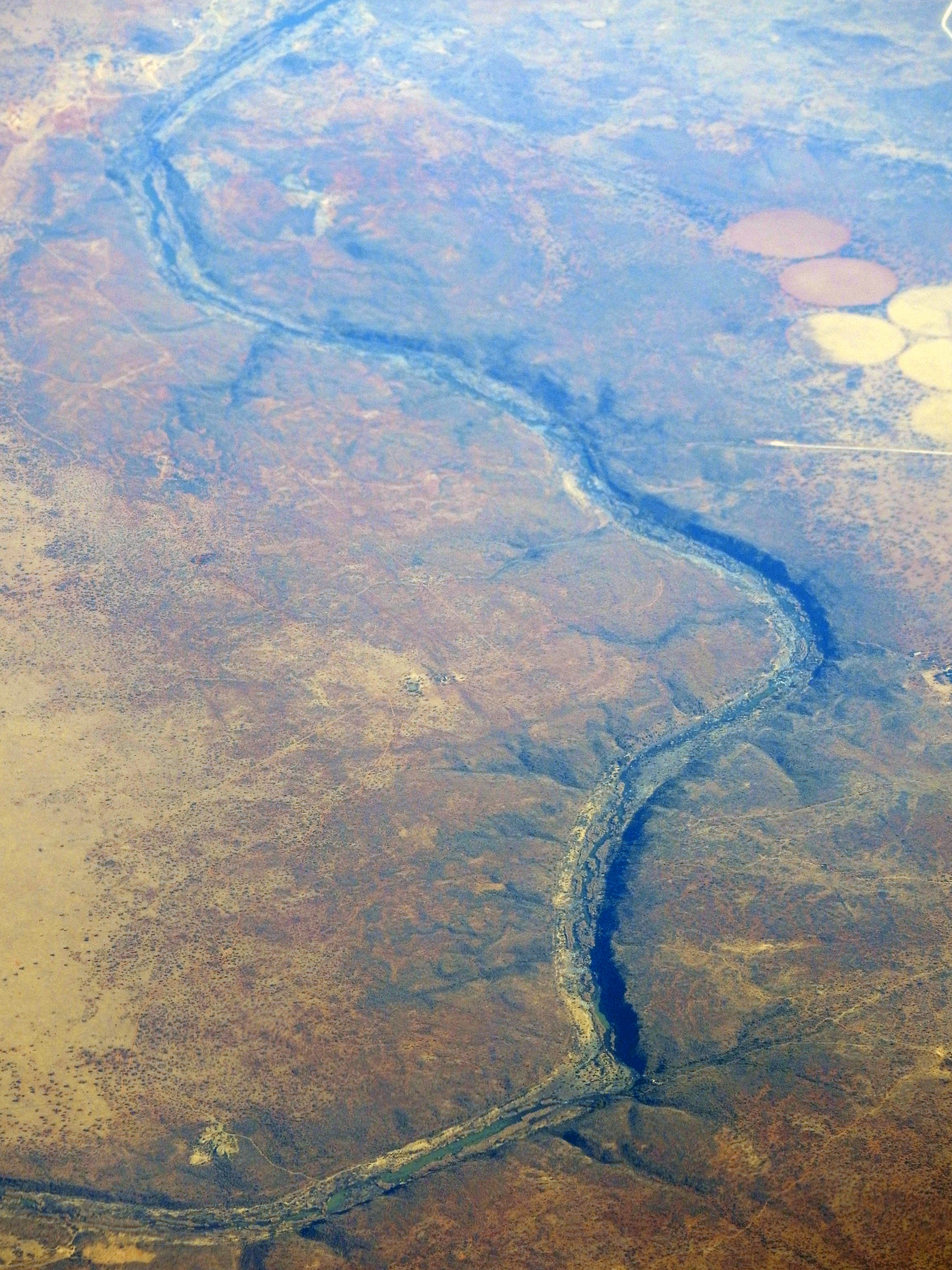 Riet River. Photographs of subjects taken before, during, or after Wikimania 2018, held in Cape Town, South Africa. More information may be found in the categories of this file.